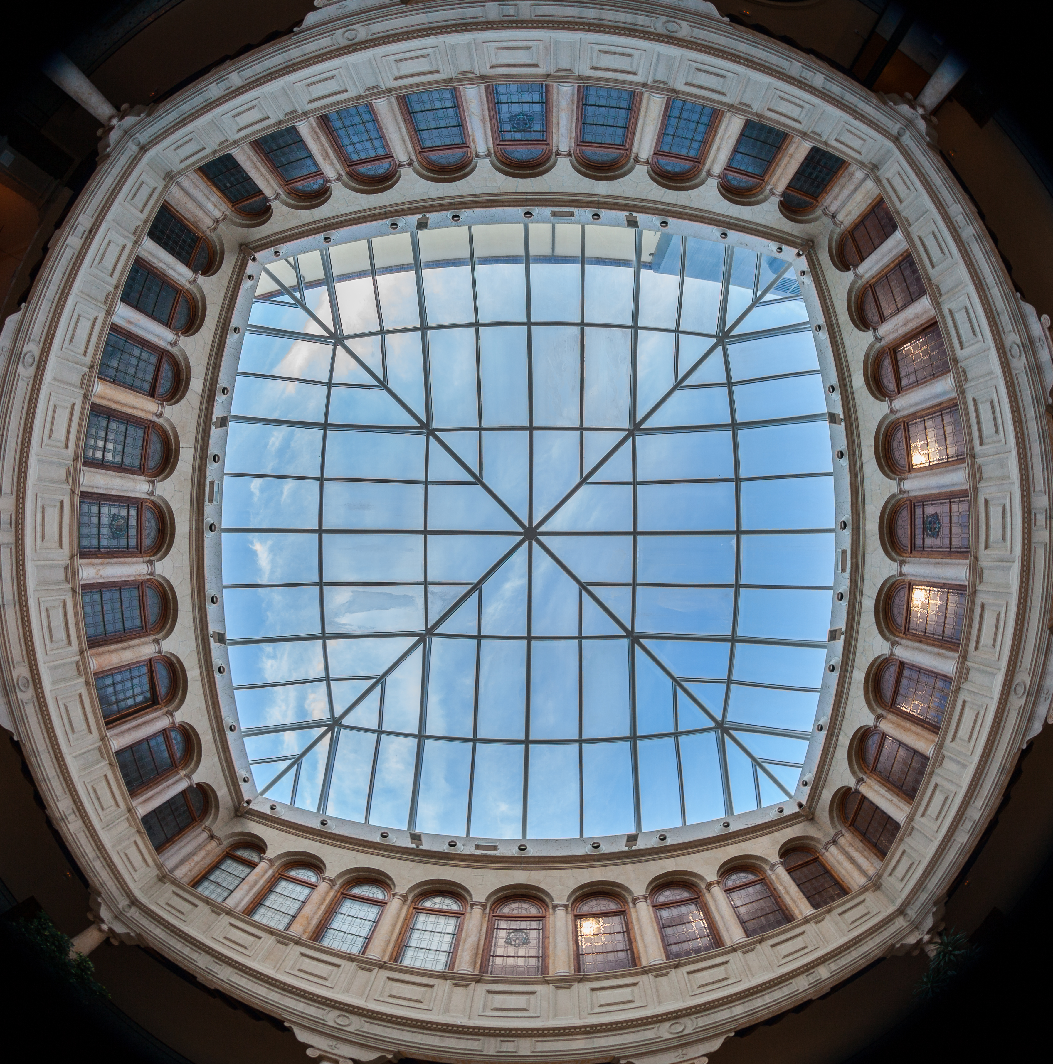 Unusual view of the glass roof of the courtyard of the religious art museum, Teruel, Spain.